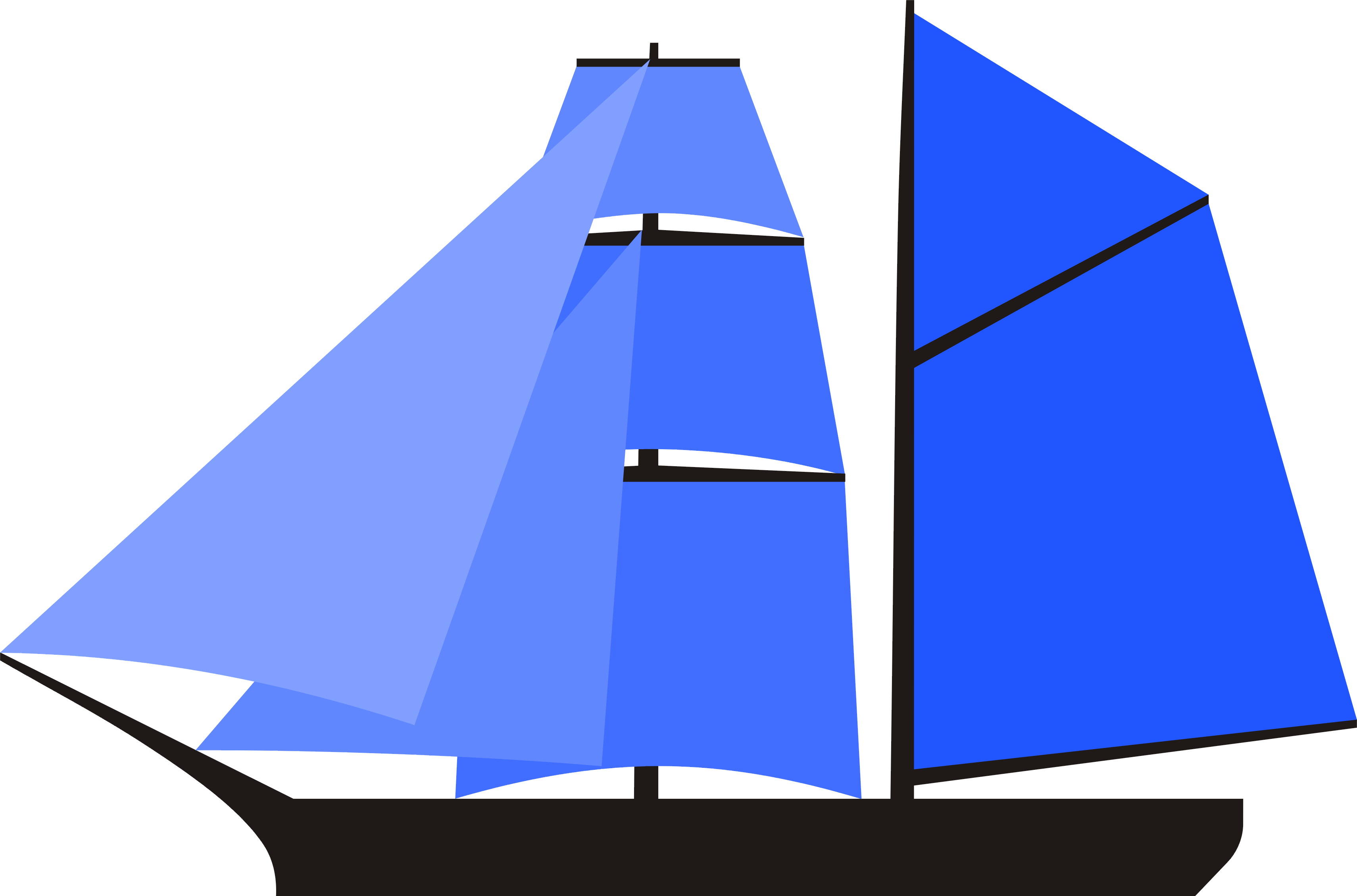 The Hermaphrodite Brig or Schooner Brig is a vessel whose foremast is identical to the full-rigged brig and brigantine, and whose mainmast is fore-and-aft rigged like that of a schooner.